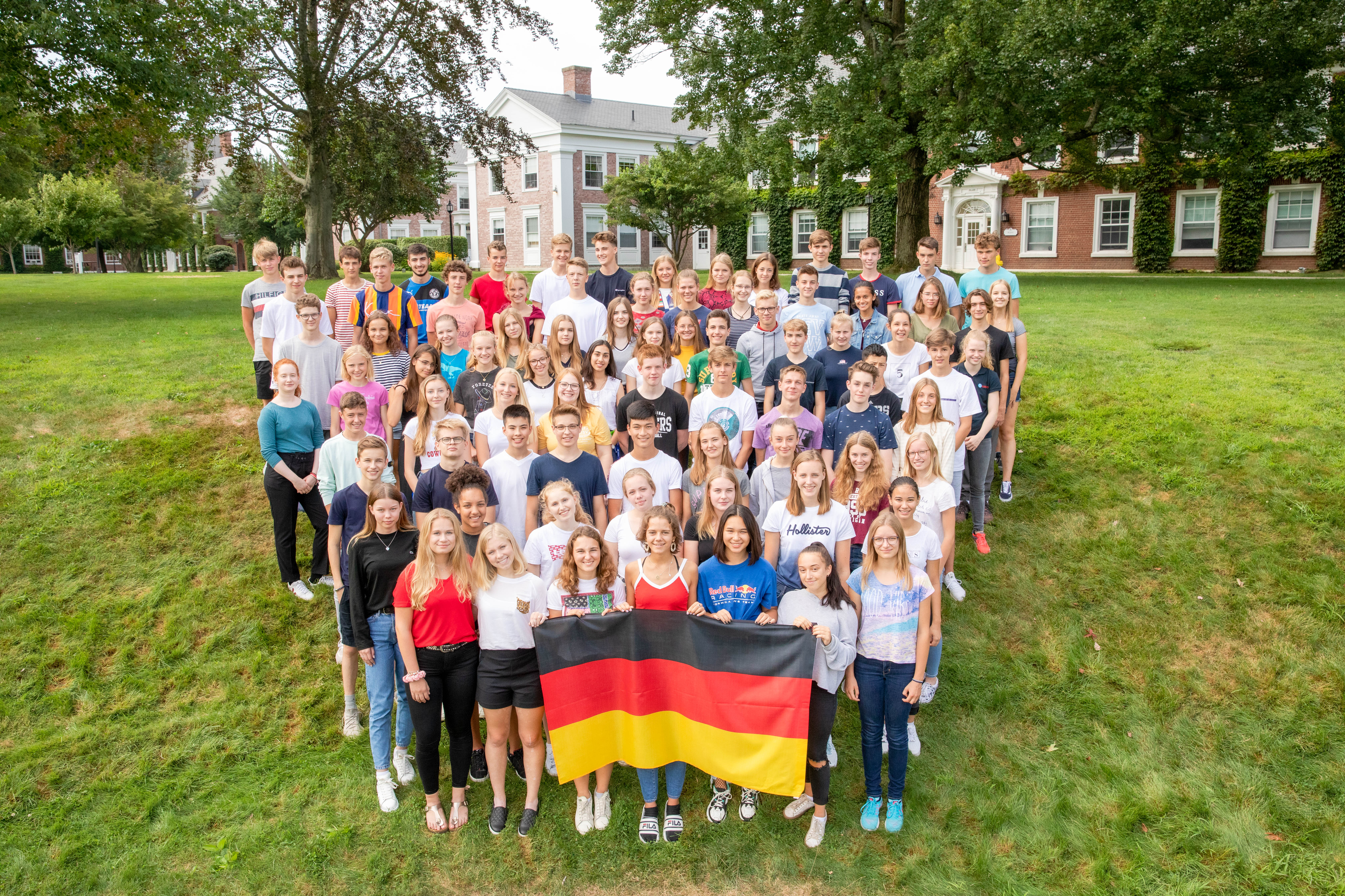 German Delegation at the ASSIST Orientation 2019 in Pomfret, USA